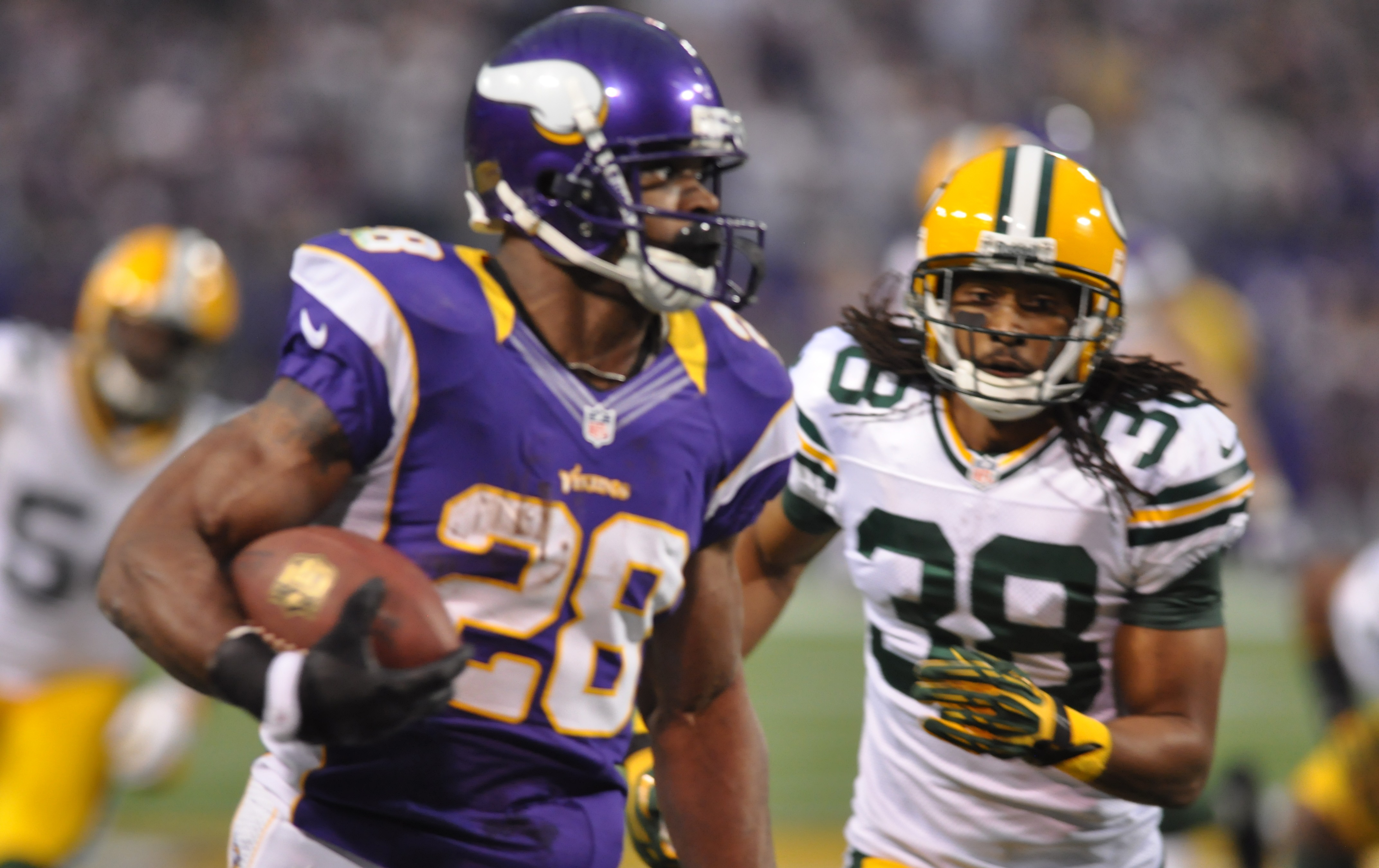 Adrian Peterson rushing 2097 yards in a season during the last 2012 NFL season vs. Green Bay on December 30th 2012